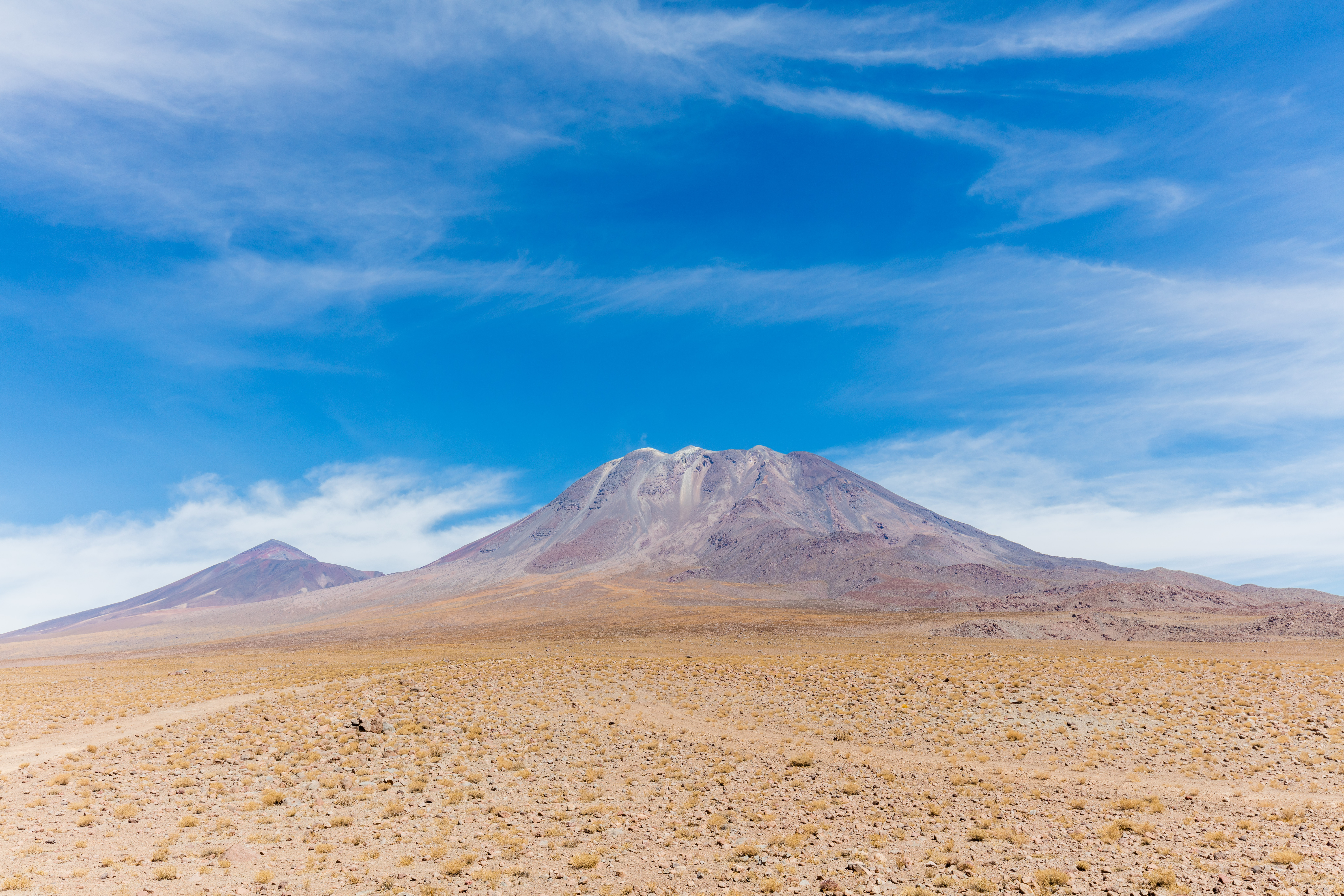 Sulfur Hill, Chile